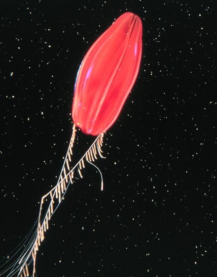 A bioluminescent Ctenophore